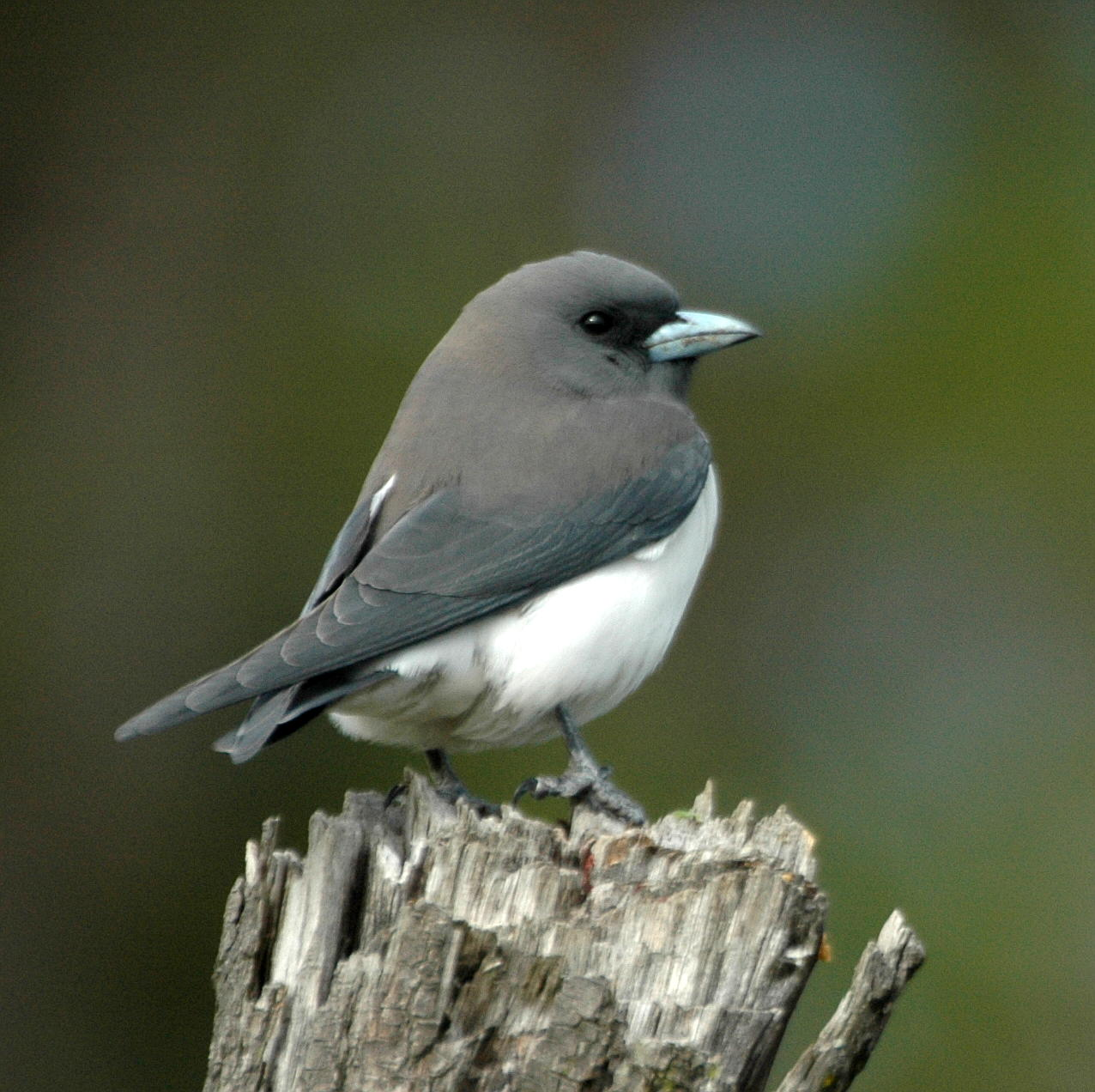 White-breasted Woodswallow Artamus (Artamus leucorynchus) Samsonvale Cemetery, SE Queensland, Australia